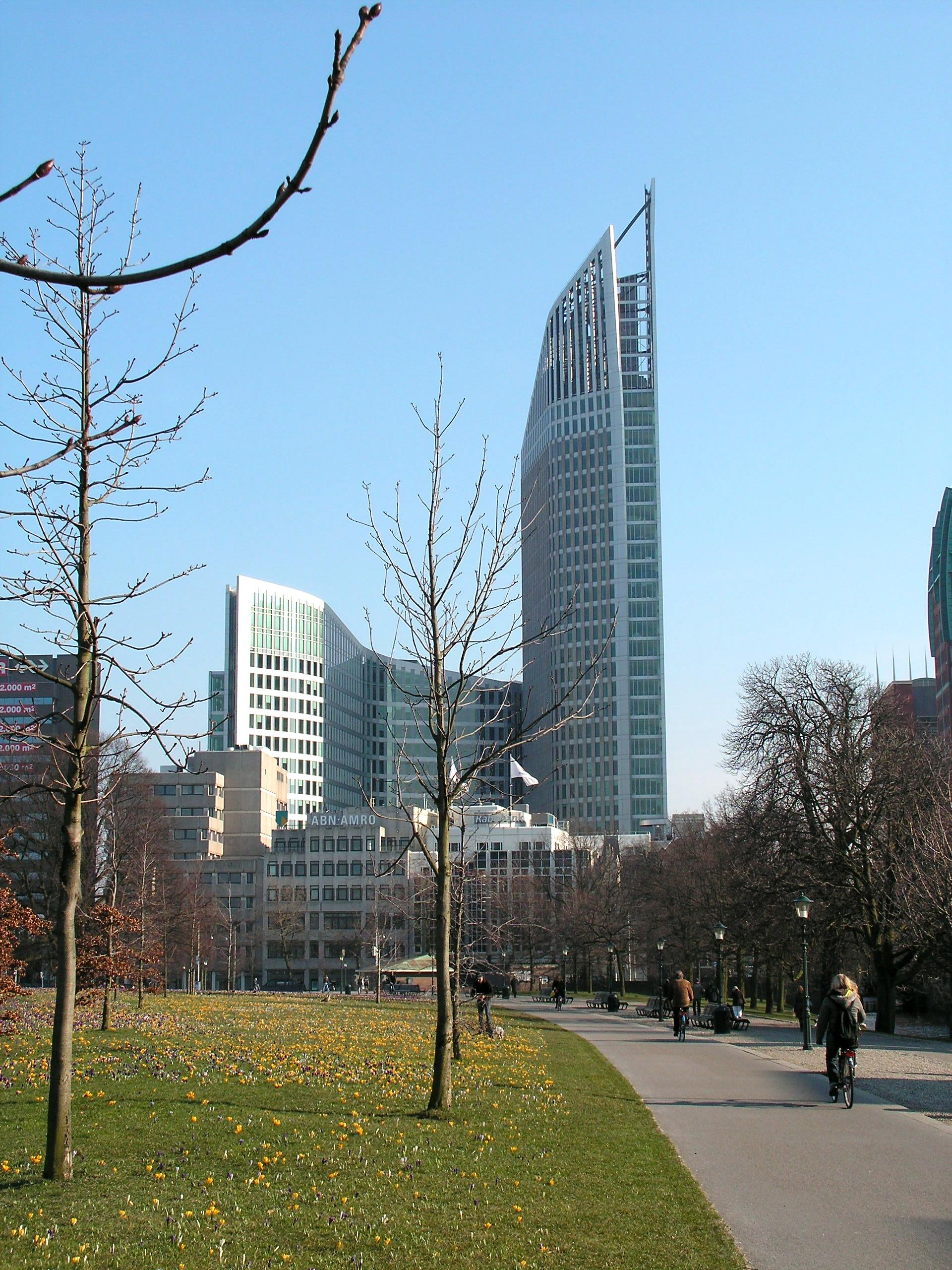 The 142 m Hoftoren in The Hague, Netherlands.